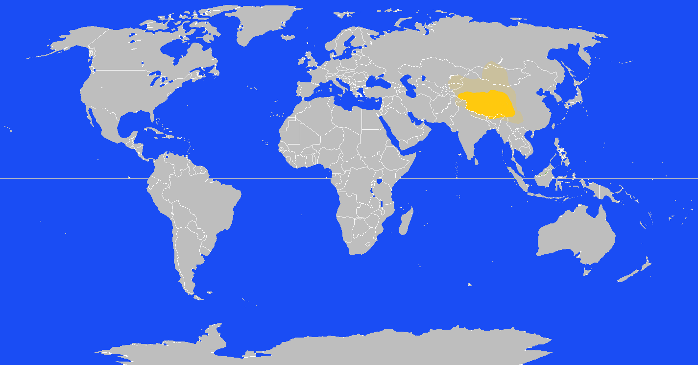 Location of Tibet